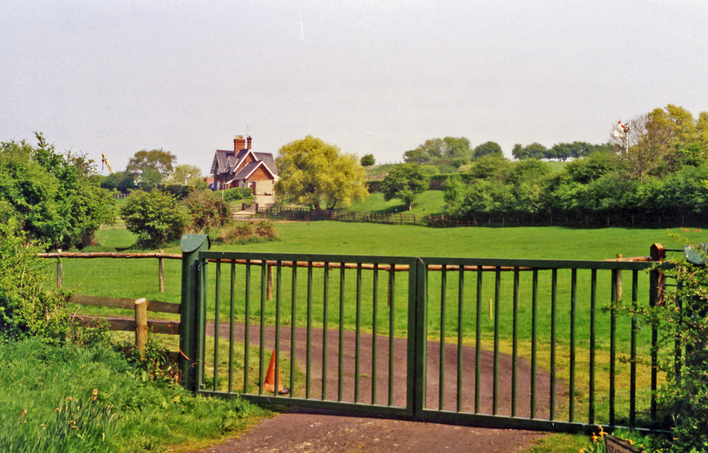 Harringworth station, site/remains, 1995. View northwards, towards Melton Mowbray and Nottingham: ex-Midland Kettering - Melton Mowbray - Nottingham main line. The station had closed 1/11/48 and passenger traffic, but not freight, ceased on the line from 6/6/66 but has been revived since 2/09.